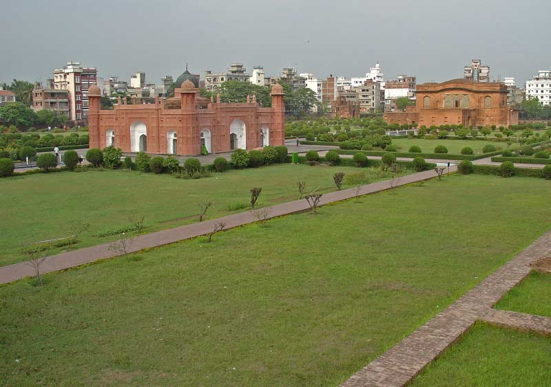 Lalbagh fort and the Tomb of Pari Bibi, Dhaka, Bangladesh Quelle: selbst fotografiert Fotograf/Zeichner: C.S. Sprung (Benutzer:Crosji, eigenes Foto) Datum: 30.März 2005 andere Versionen: keine